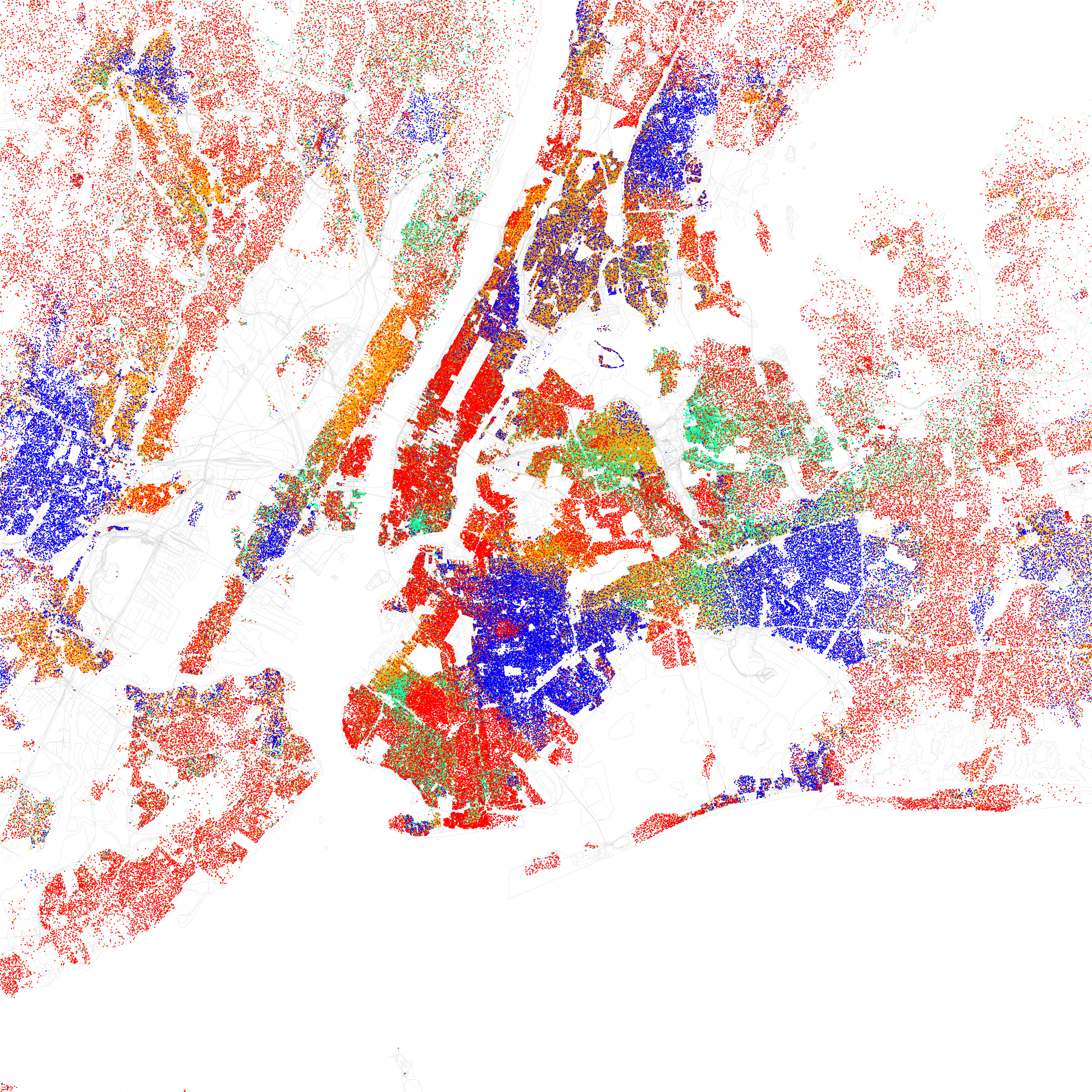 Maps of racial and ethnic divisions in US cities, inspired by Bill Rankin's map of Chicago, updated for Census 2010. Red is White, Blue is Black, Green is Asian, Orange is Hispanic, Yellow is Other, and each dot is 25 residents. Data from Census 2010. Base map © OpenStreetMap, CC-BY-SA